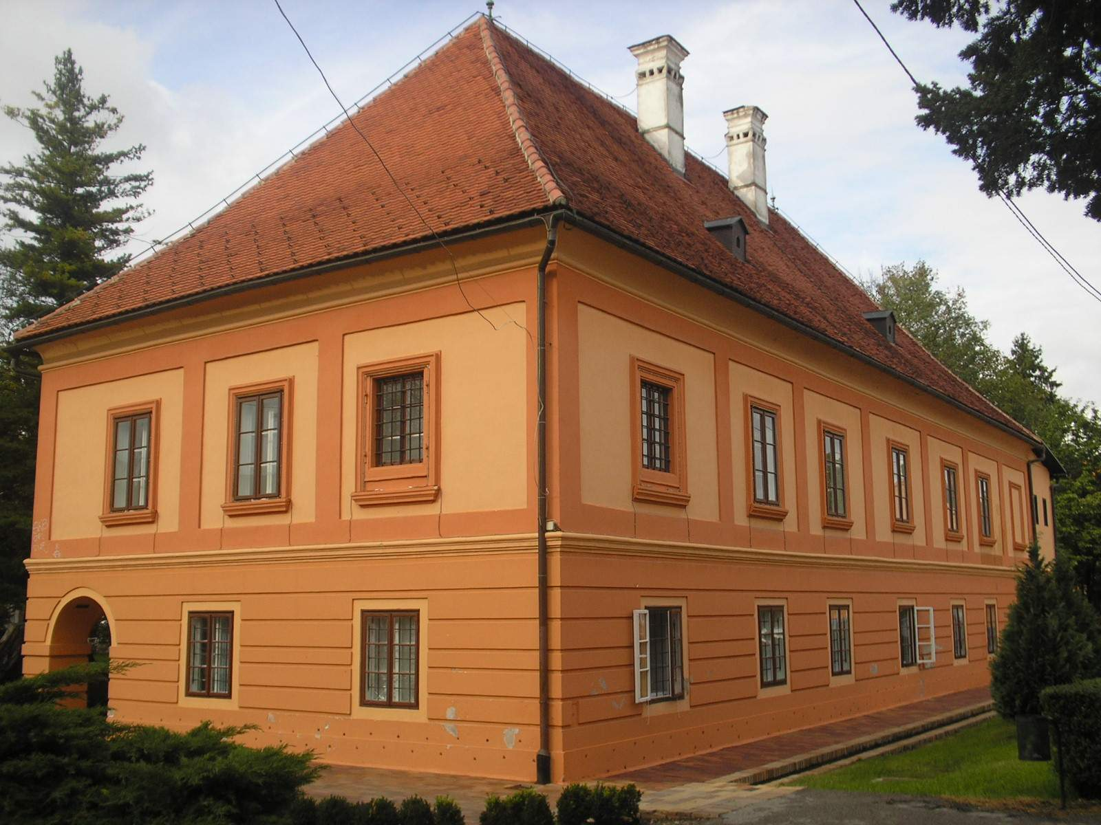 Museum Turopolje in Velika Gorica, Croatia